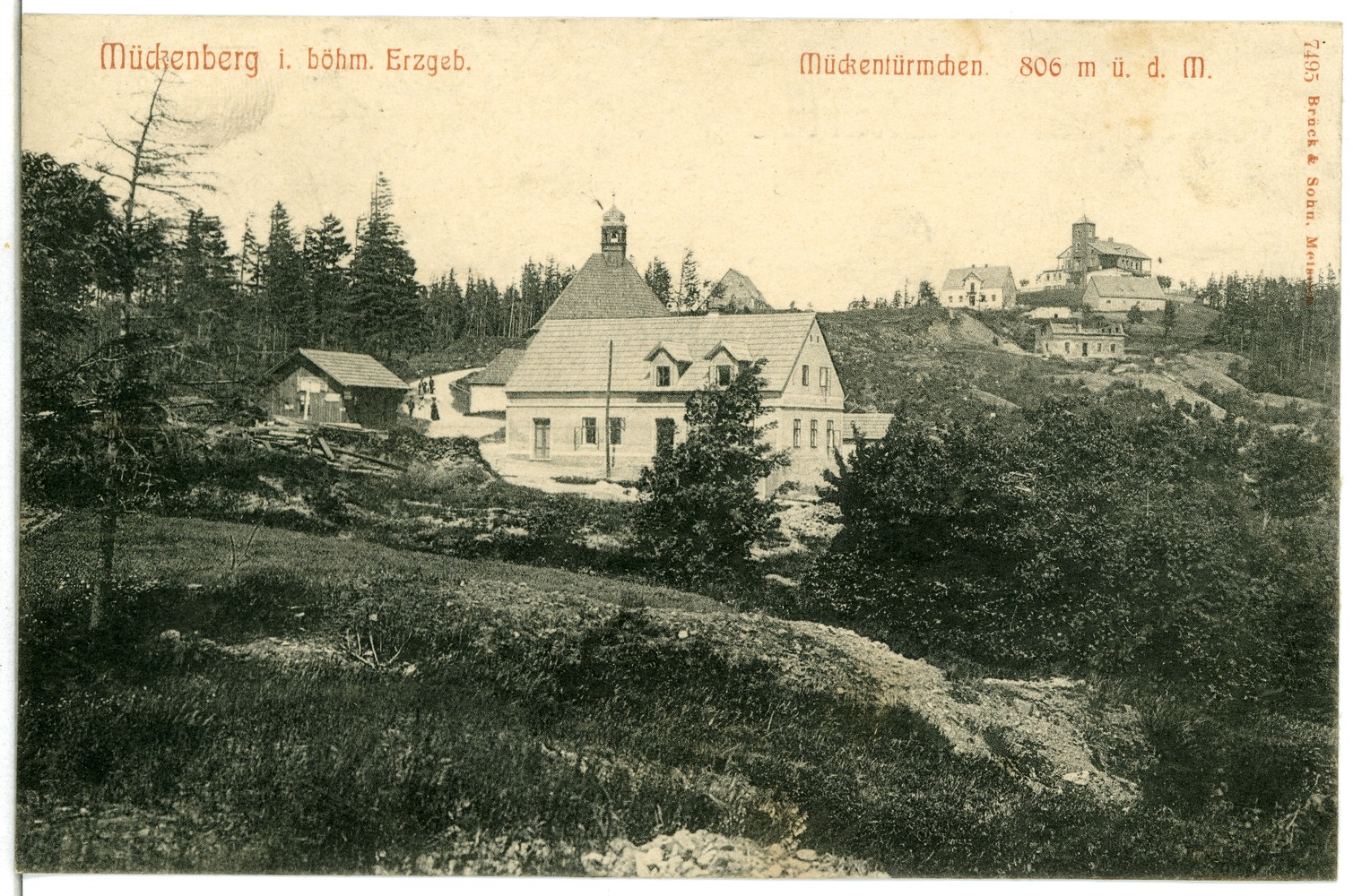 This postcard is from publisher Brück & Sohn in Meißen ( This postcard has a unique number 07495 and is available in a higher resolution at the publisher. This images was uploaded in a cooperation project between Wikipedians and the publisher.